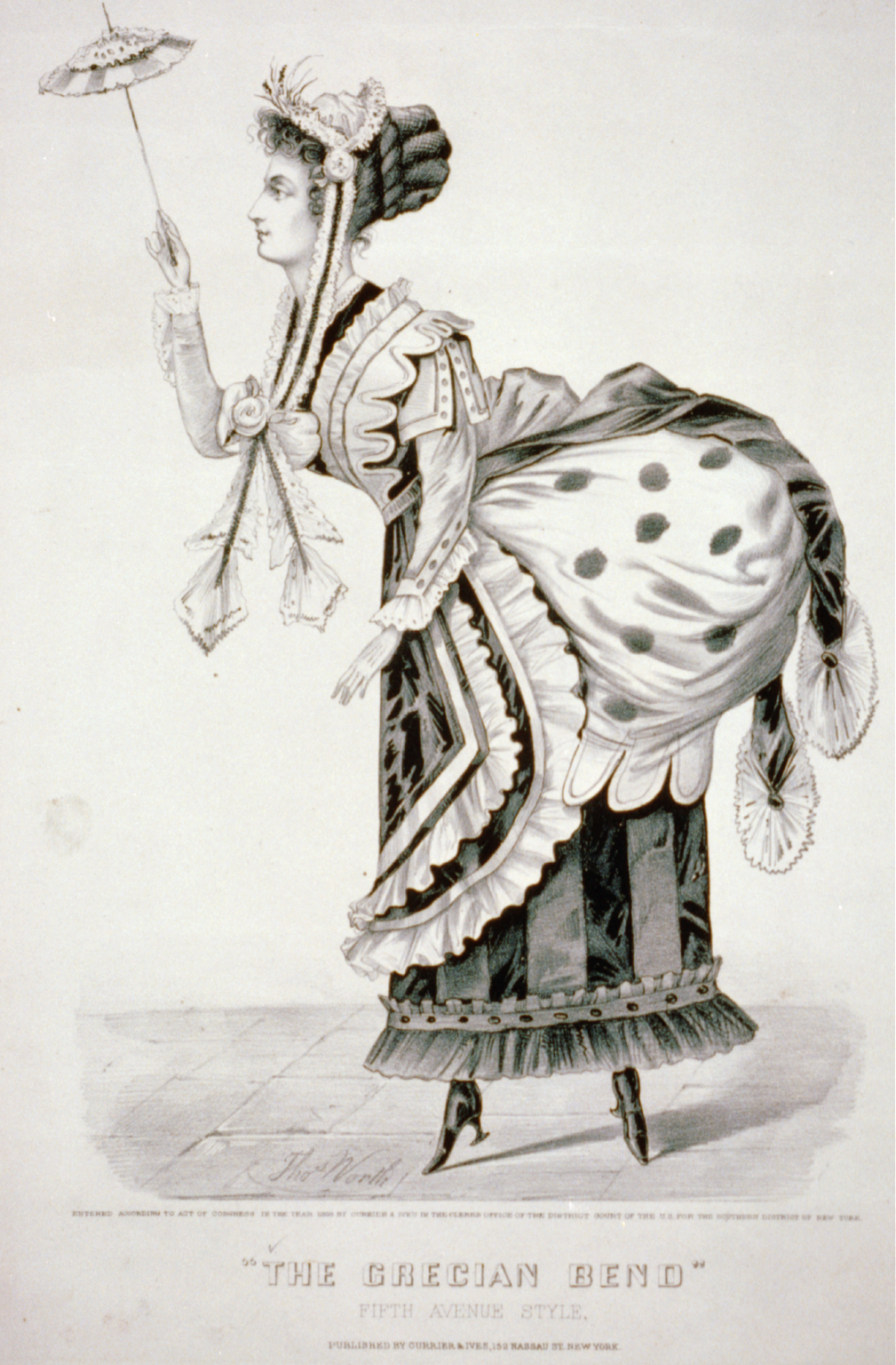 "The Grecian Bend", a Currier & Ives lithograph of a woman performing a popular 19th-century postural affectation.